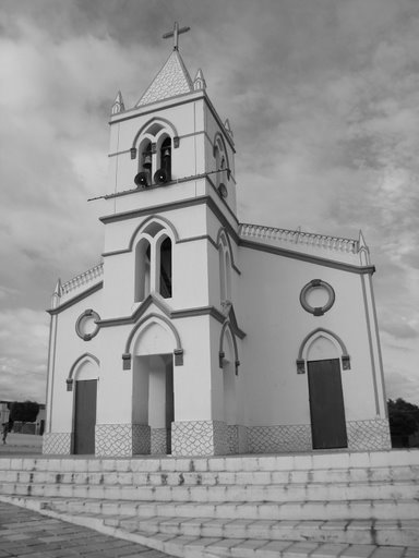 IGREJA CATÓLICA